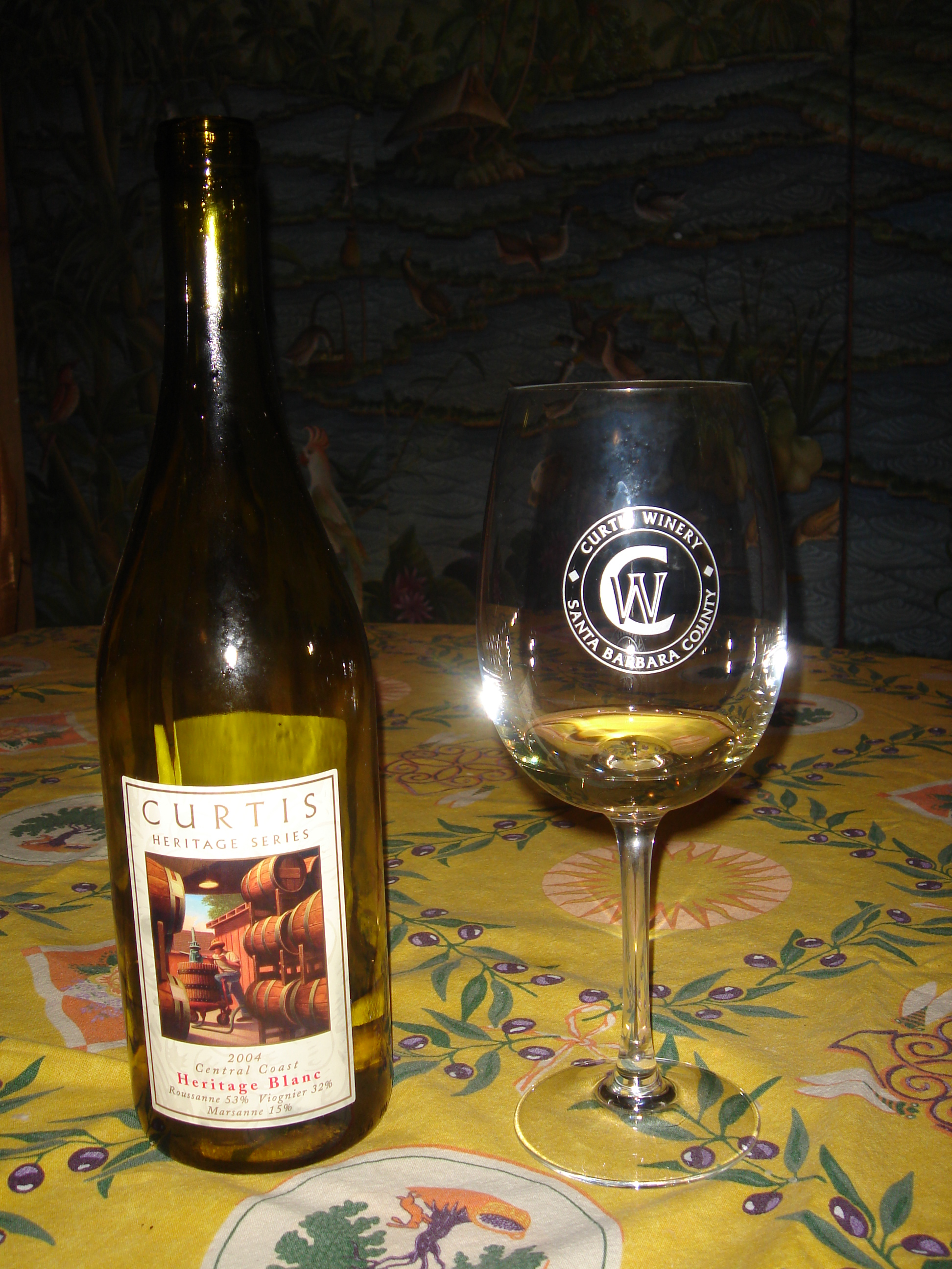 Curtis Vineyards is a subsidiary of Firestone Vineyards. Curtis specializes in Rhone grapes grown in Santa Barbara. A blend of viognier, marsanne, and rousanne.